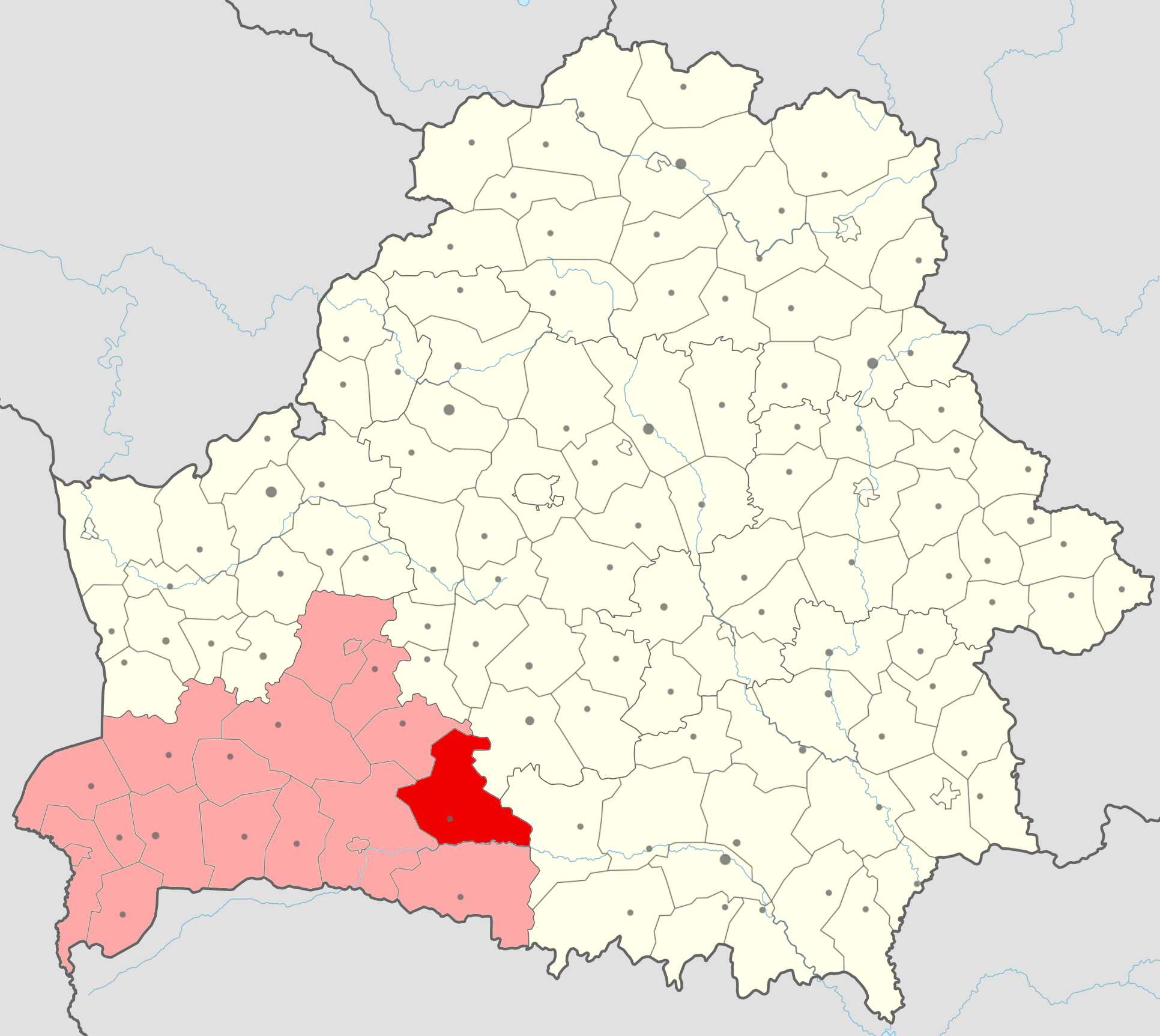 Location of Luniniecki rajon (red) in Bresckaja voblasć (light red) in Belarus.